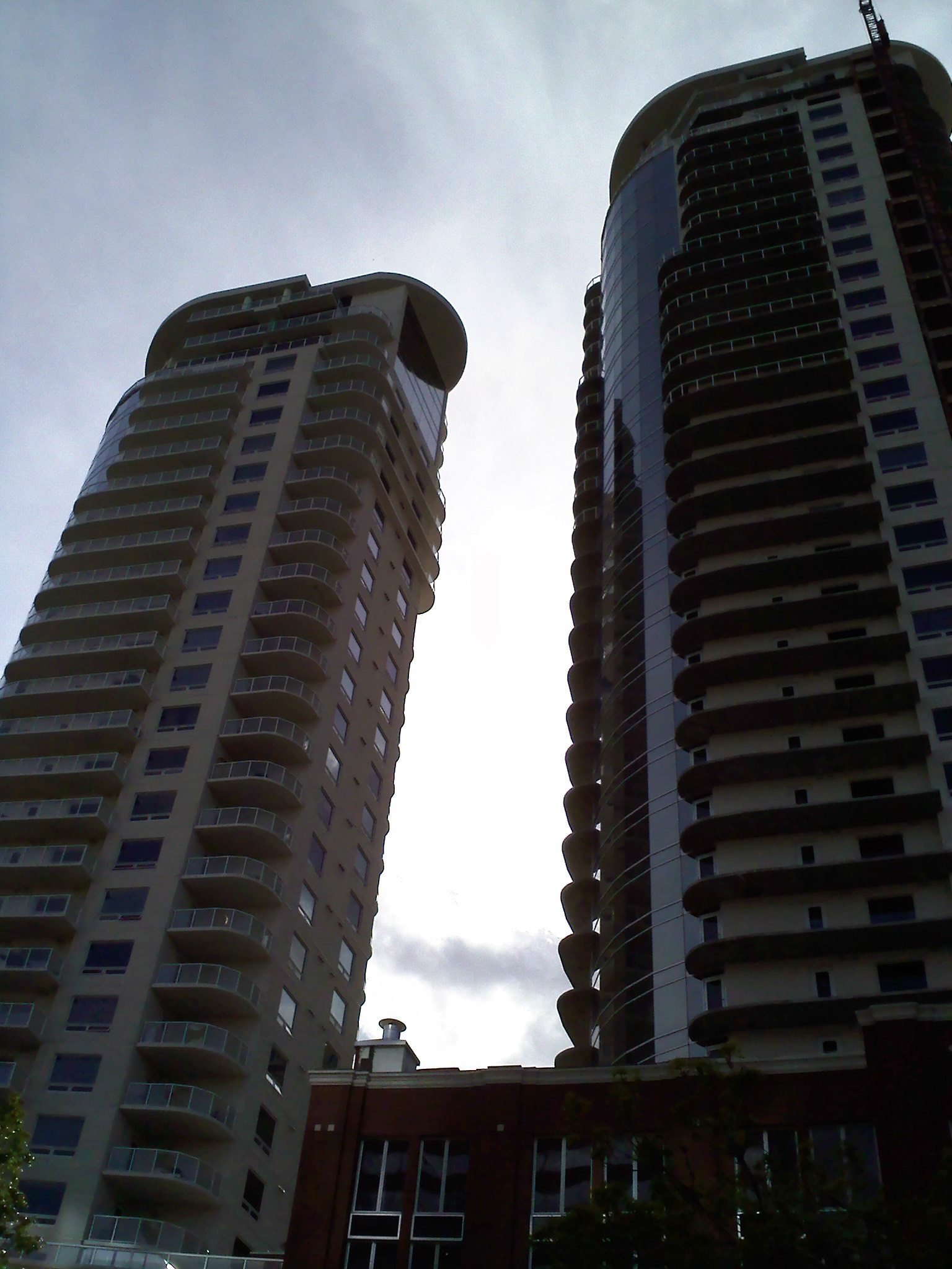 East side of the Icon Towers, Edmonton, from 104 Street.